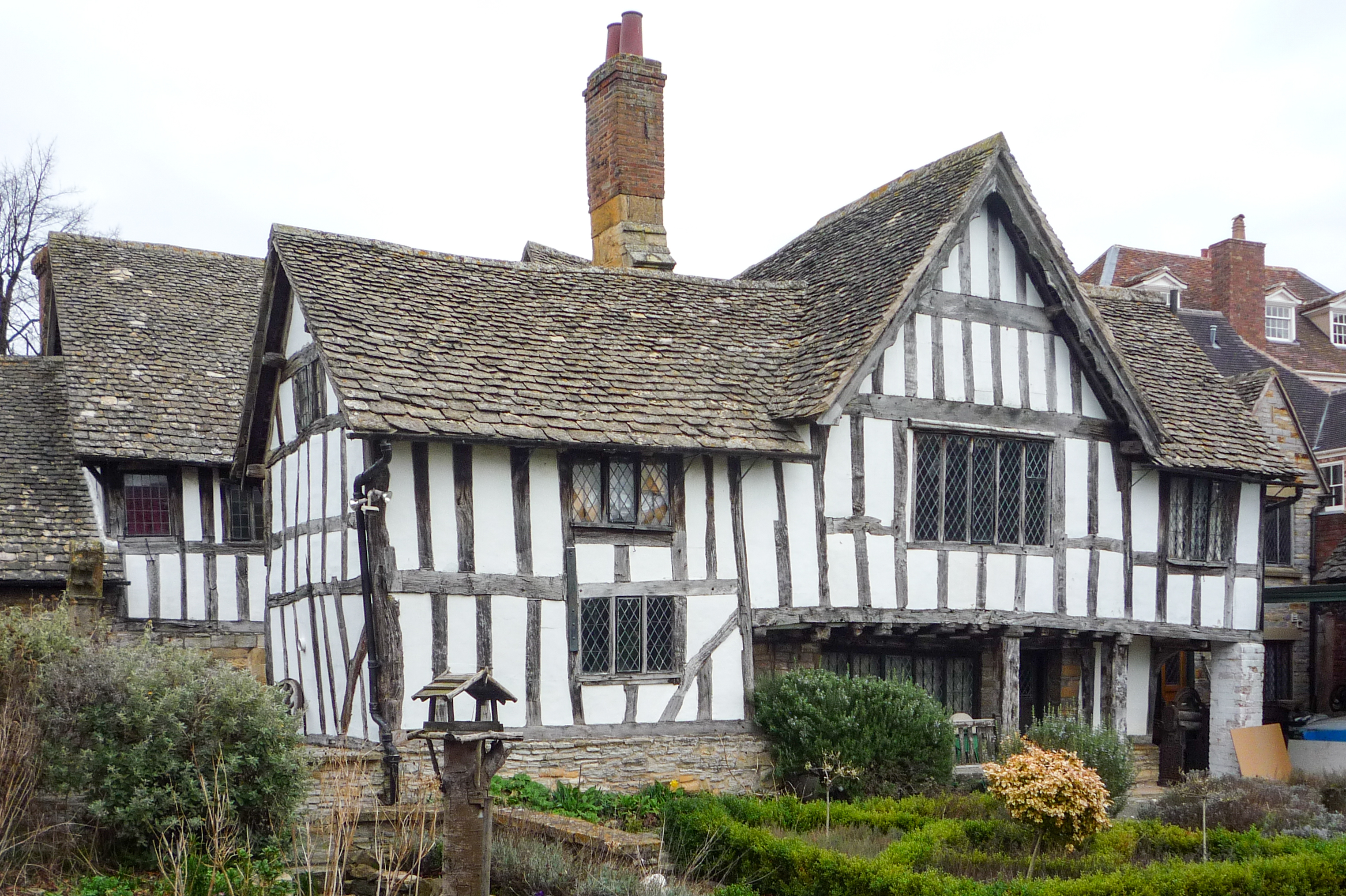 The Almonry, Evesham, Worcestershire, England - viewed from the garden on the south side. A Grade I listed building of 14th century origins. Once the home of the Almoner of the Evesham Benedictine Abbey, the building and gardens now house the Evesham Almonry Museum and Heritage Centre.